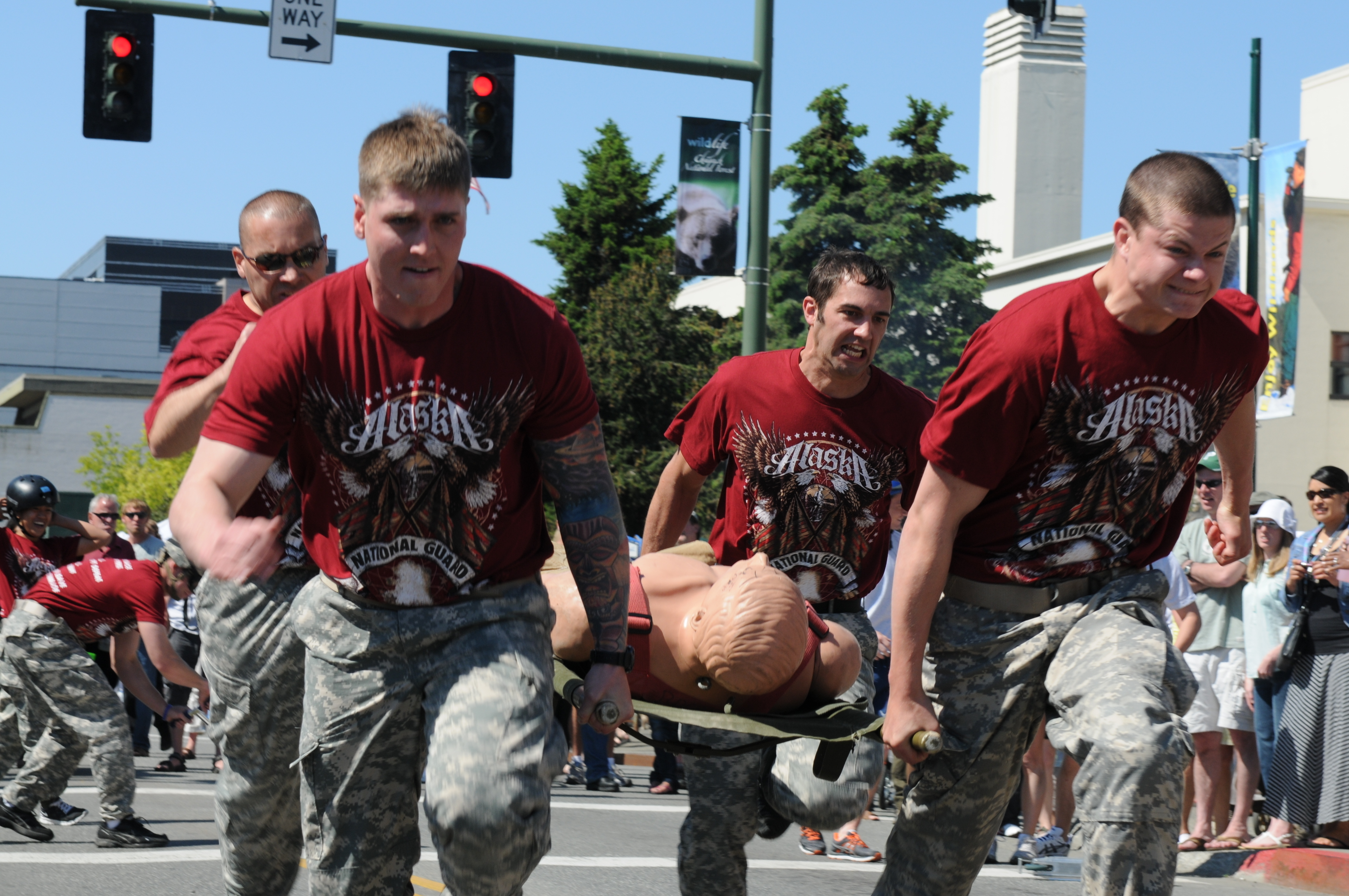 The Alaska Army National Guard “Predators of the North” race during the litter carry event of the Fourth Annual Hero Games, June 23. During the litter carry, four team members race 200 yards up and down 4th Avenue carrying a rescue dummy. TheFourth Annual Hero Games’ five overall events included the obstacle course, litter carry/scooter race, water balloon volleyball, bucket brigade/vehicle push, and tug-of-war. Participants included teams represented by Anchorage Police, Anchorage Fire Department, U.S. Air Force, Air Force Reserve, U.S. Army, Alaska Air National Guard and the Alaska Army National Guard. The Hero Games are held each year during the Summer Solstice festival in downtown Anchorage.